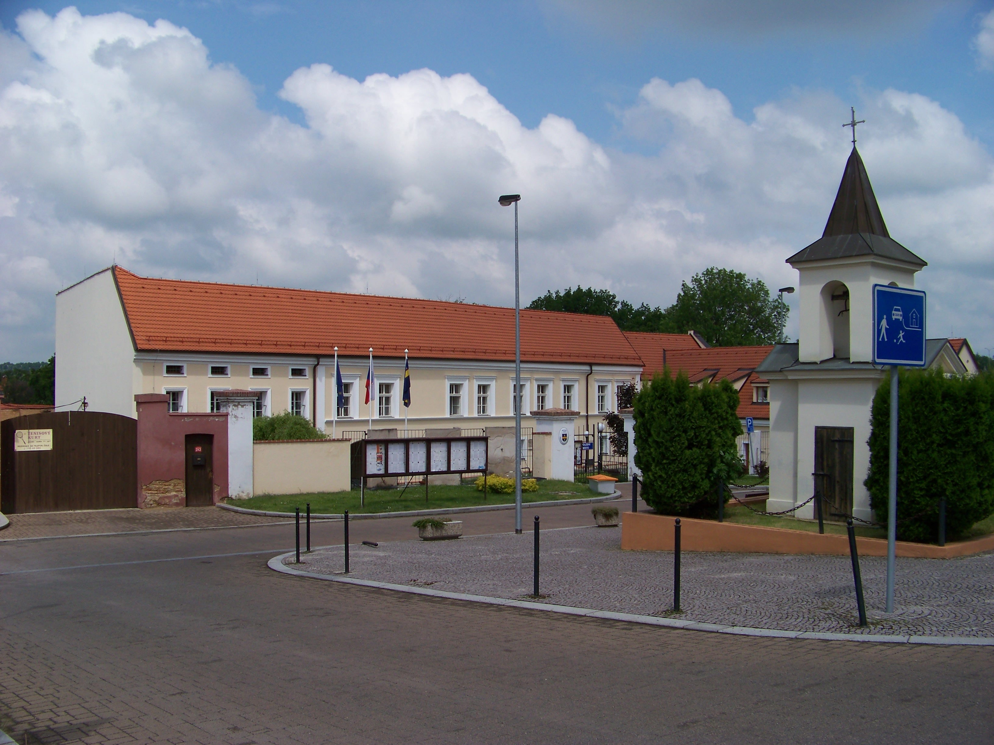 Prague-Dolní Chabry, Czech Republic. Hrušovanské náměstí, a bell tower.